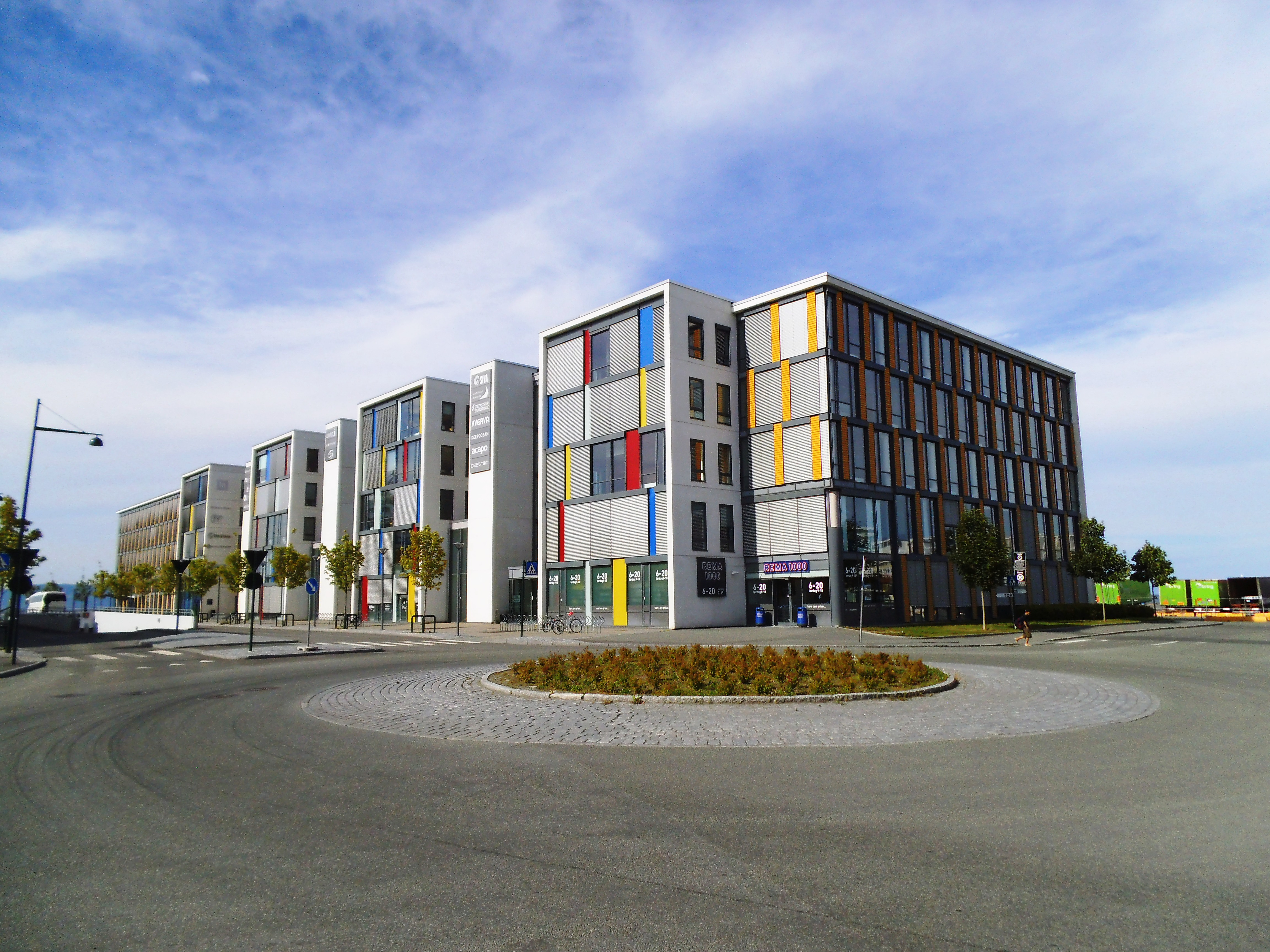 Modern apartment buildings in Brattøra, Trondheim.